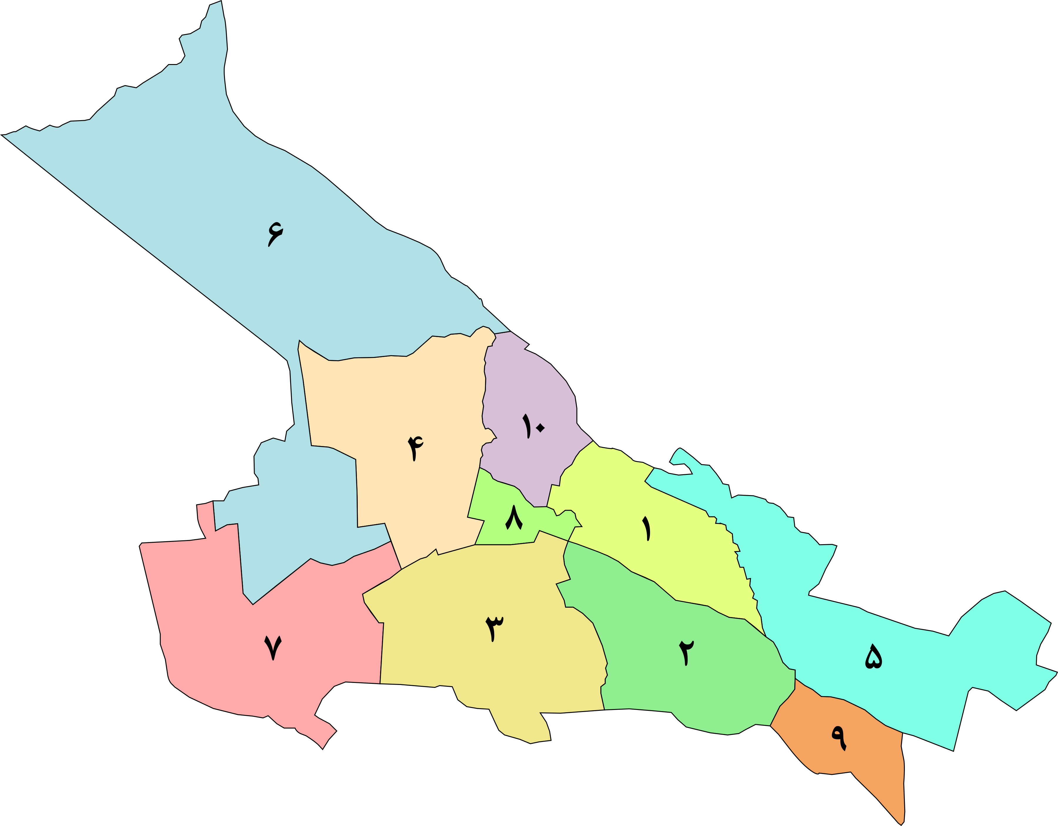 Tabriz Municipal Regions, East Azerbaijan, Iran.